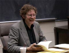 Photo of David Wood, Continental Professor of Philosophy at Vanderbilt University